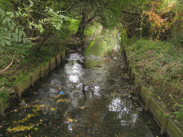 Silk Stream in Burnt Oak. Uploading this 960811 reminded me of this image and illustrates the point made in the caption to the other photograph. The Silk Stream is viewed here looking downstream from the south side of the shops in Watling Avenue.